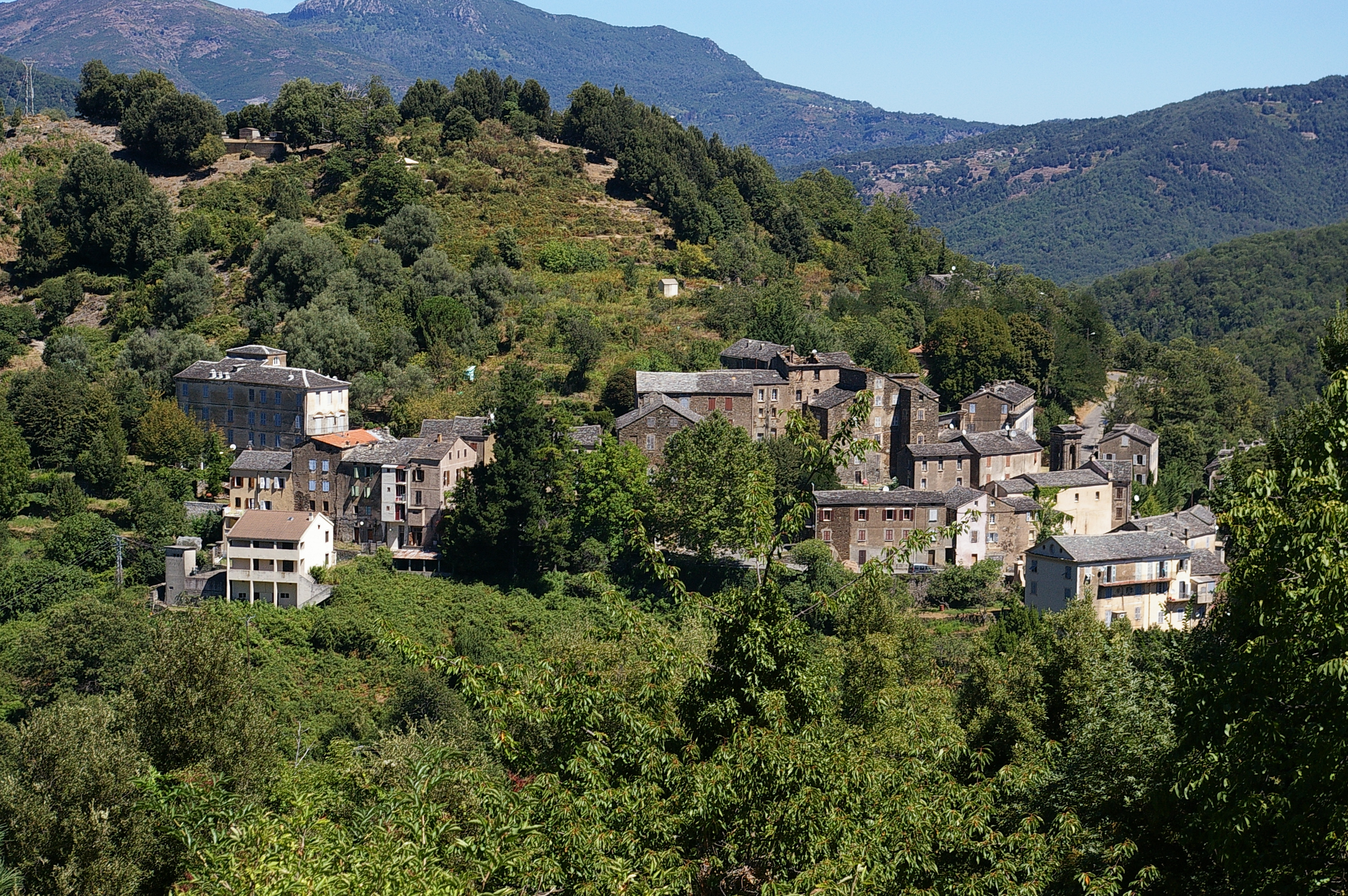 View of Stazzona, Corsica